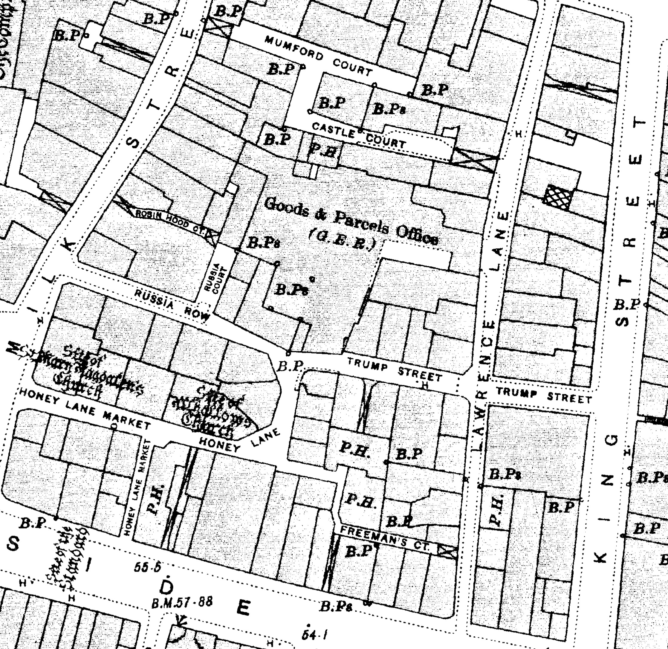 Russia Row and Trump Street 1910s Ordnance Survey map.